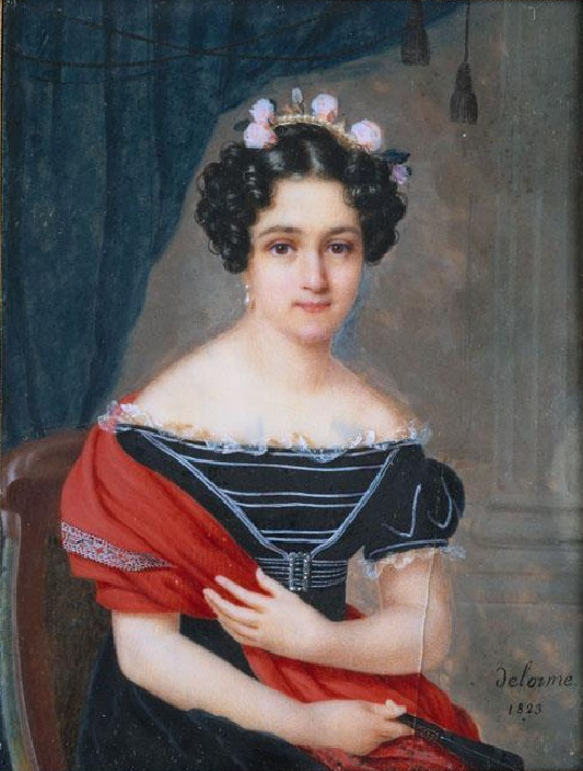 Portrait of Mariana Carlota Lodi (1823), by Jean-Paul Delorme